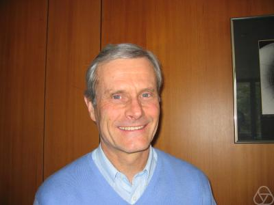 Hanspeter Kraft